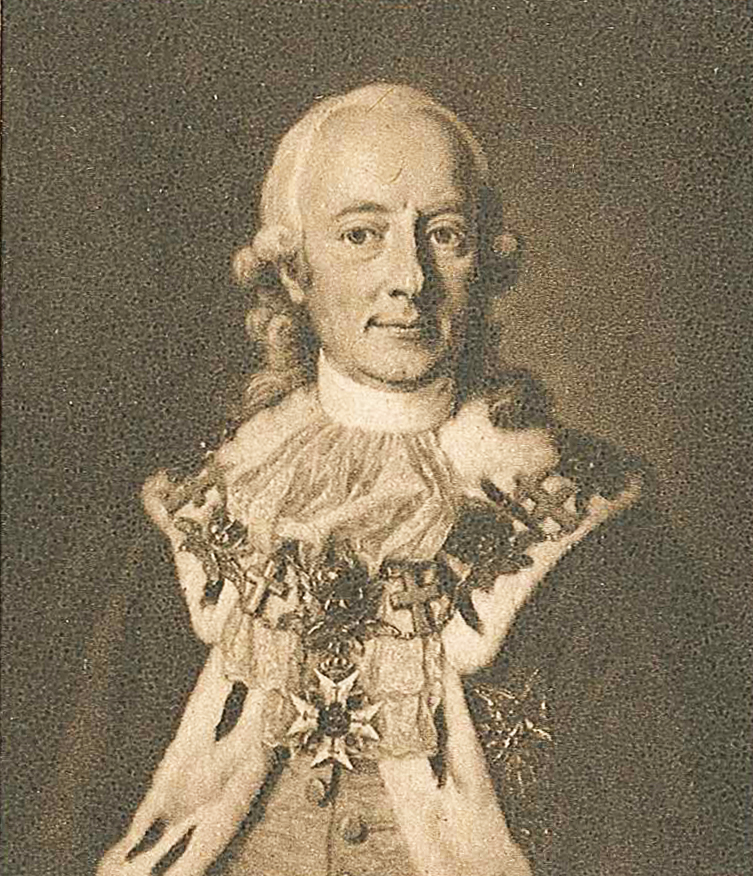 Portrait of Karl Bonde (1741–1791), Swedish count, senator and marshall of the realm (riksmarskalk).